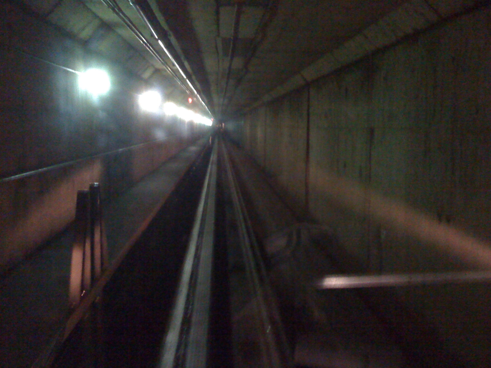 Atlanta Airport Train Tunnel